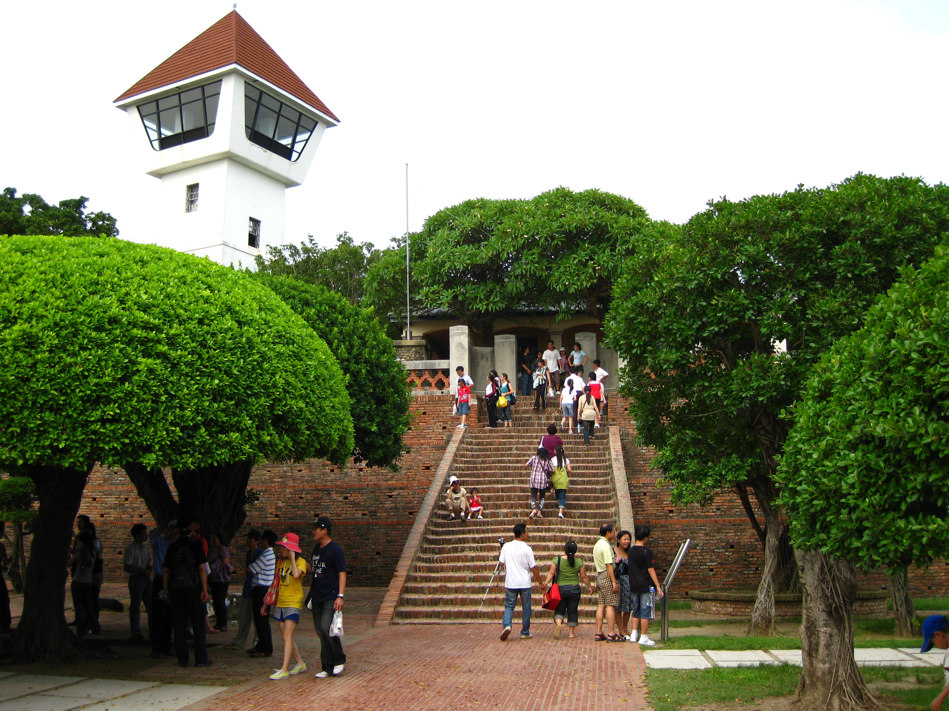 Fort Anping, Anping, Tainan, Taiwan